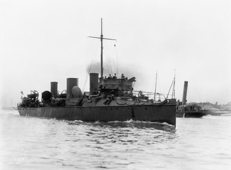 Photograph of British torpedo boat destroyer HMS Dove.